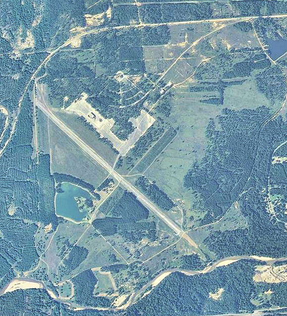 USGS digital orthophoto of Sharpe Field, an airport in Alabama